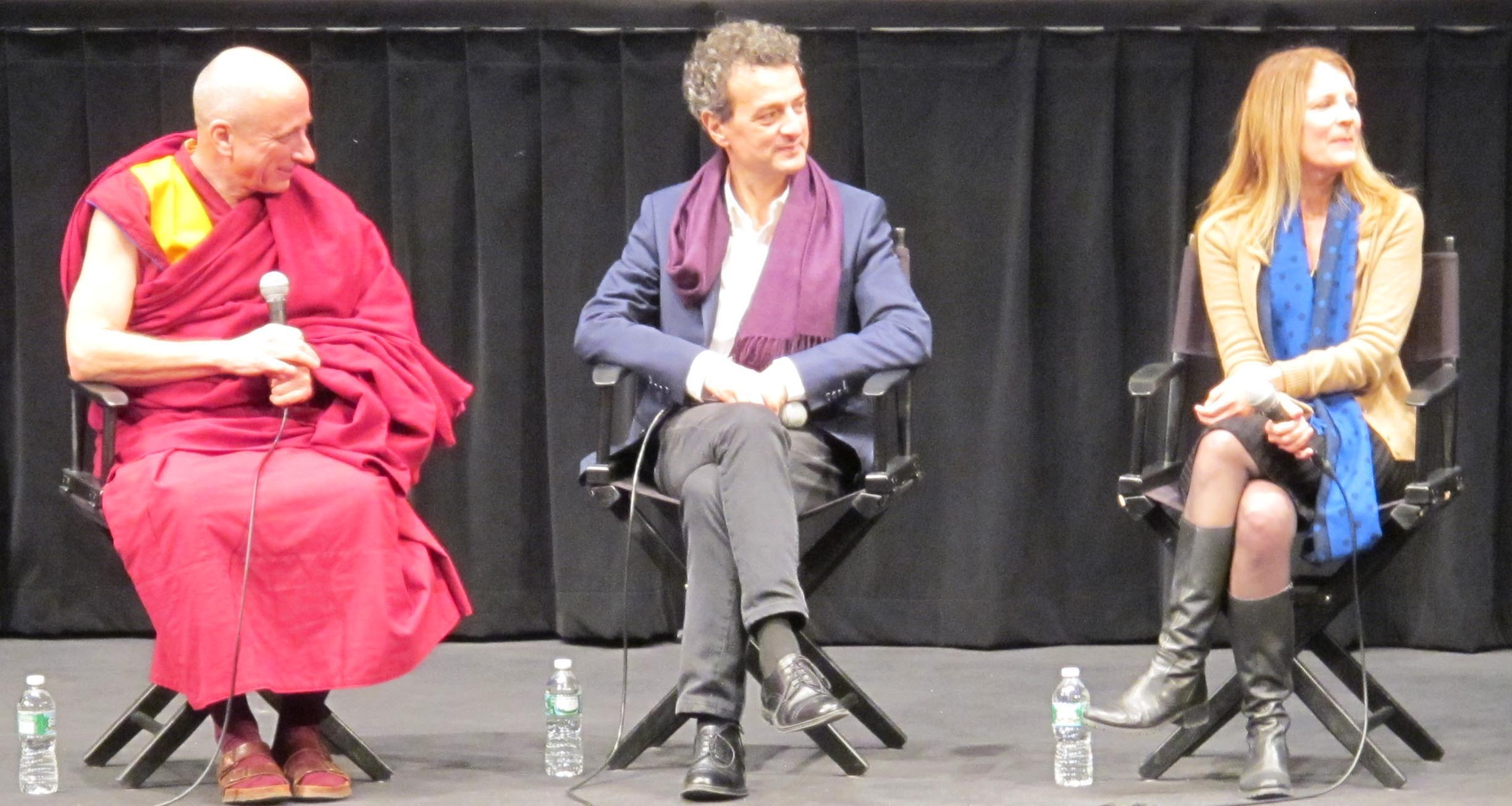 From the left, Geshe Nicholas Vreeland, Director Guido Santi, Director Tina Mascara, of Monk with a Camera, premiere at Lincoln Center, NYC